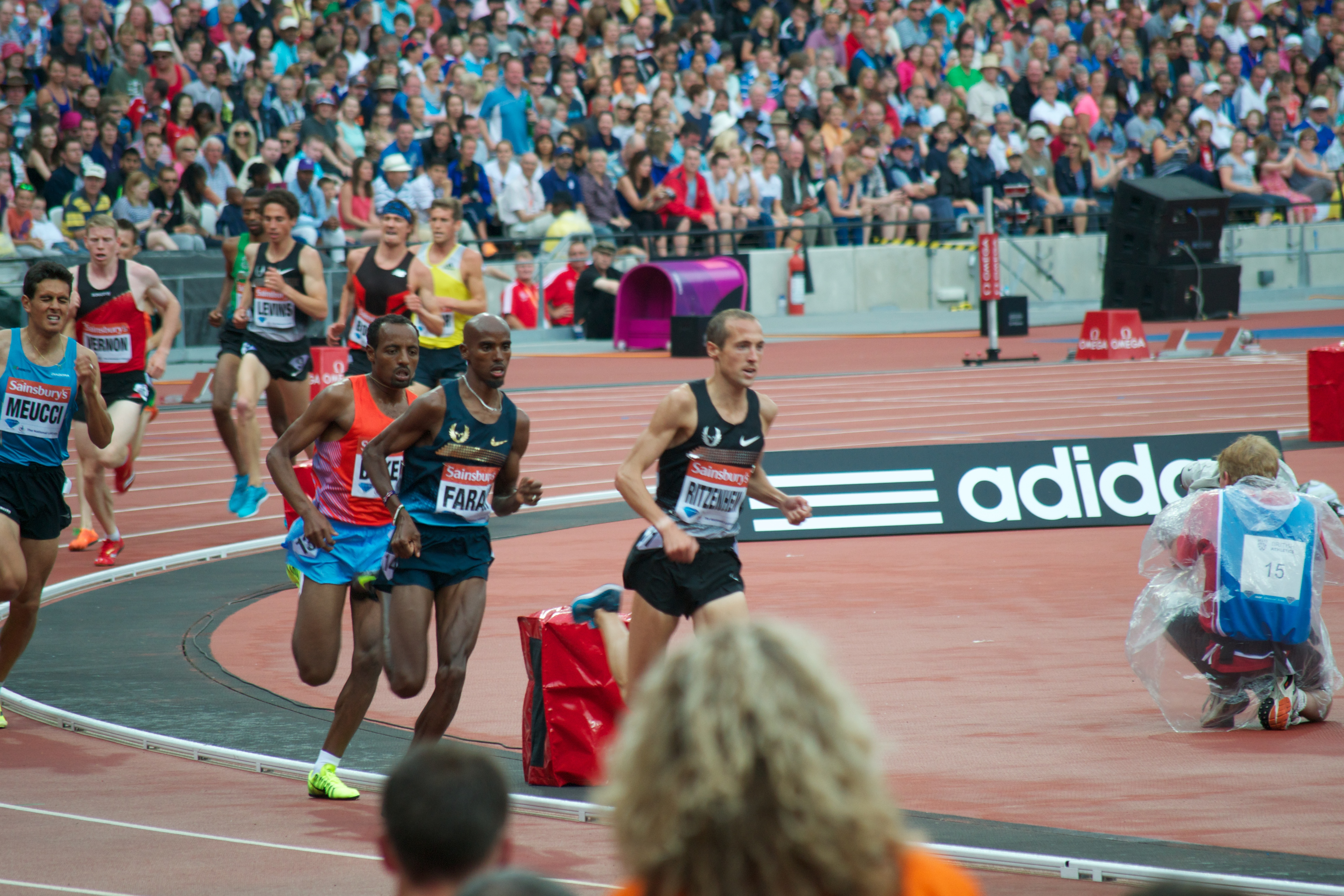 Mo Farah on his way to a gold medal in the mens 3,000 metres event at the 2013 London Grand Prix, part of the Anniversary Games in the Olympic Stadium.